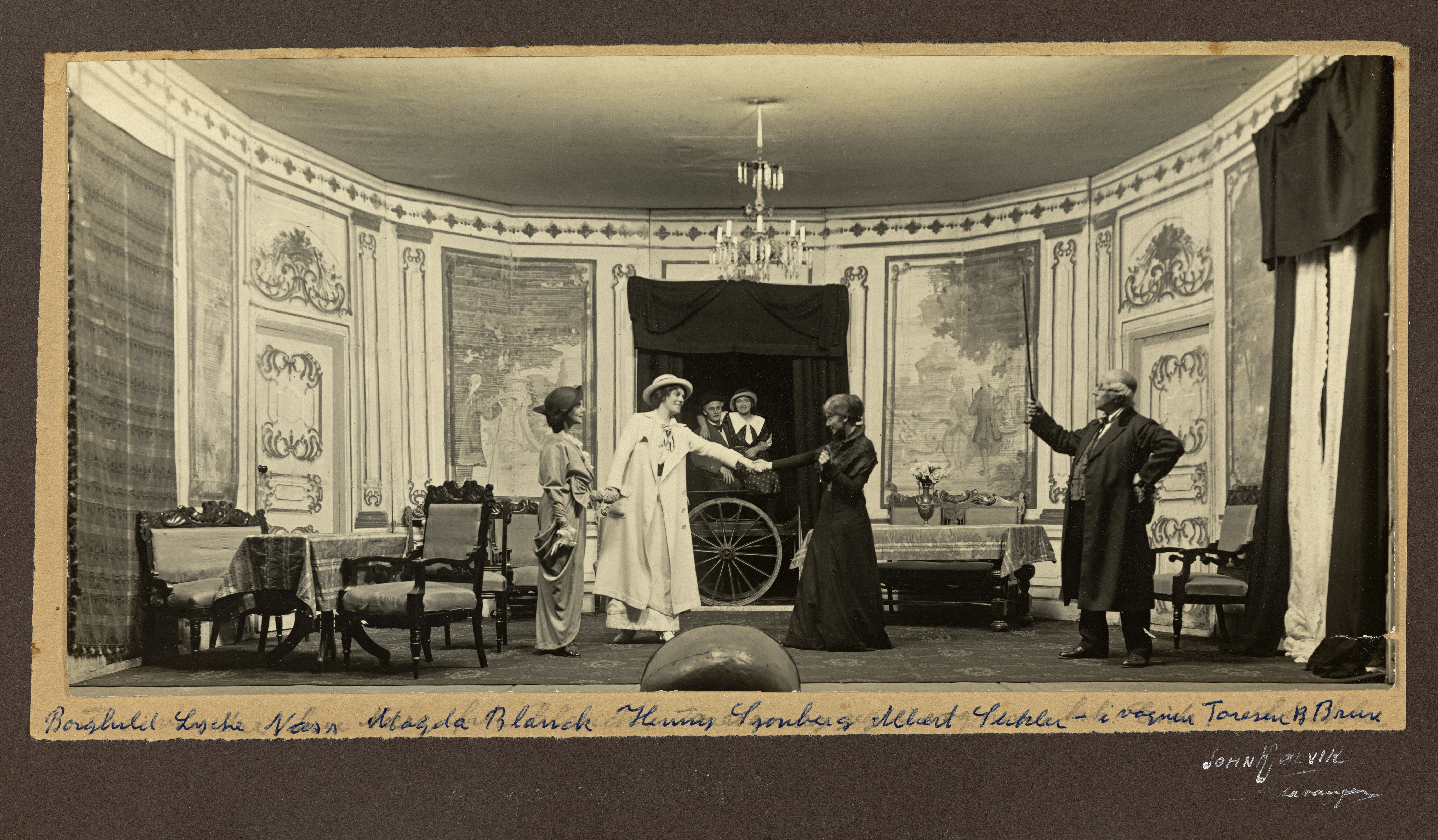 Beskrivelse / Description: "Geografi og Kærlighed" er et skuespill av Bjørnstjerne Bjørnson, utgitt i 1885. Fra venstre: Borghild Lyche Næss, Magda Blanc, Henny Skjønberg, Albert Stikler (?), i vognen Toresen og Brun. Dato / Date: 1914 Sted / Place: Norge, Rogaland, Stavanger, Stavanger faste scene Fotograf / Photographer: John Kjølvik (Stavanger) Digital kopi av original / Digital copy of original: Eier / Owner Institution: Nasjonalbiblioteket / National Library of Norway Lenke / Link: Bildesignatur / Image Number: blds_07994